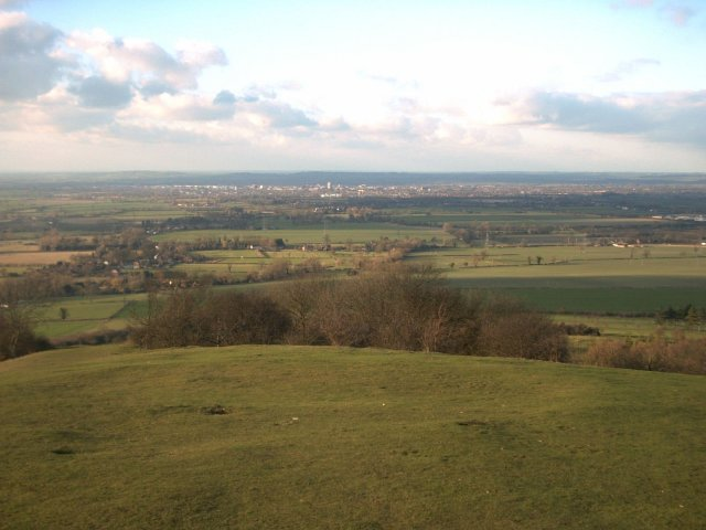 View overlooking Aylesbury Vale from Coombe Hill, Buckinghamshire